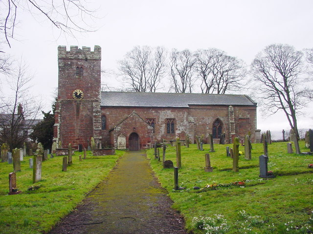 St Michael'sParish Church Kirkby Thore.